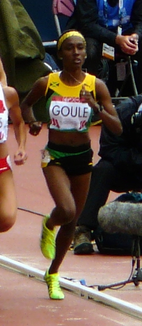 Natoya Goule at the 2014 Commonwealth Games